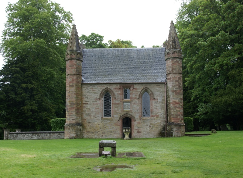 Scone Palace, Scone, Perth and Kinross, Scotland - Moot Hill Chapel with in front of it a replica of the Stone of Scone